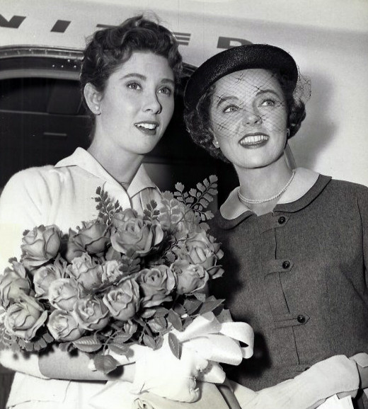 Photo of Elinor Donahue (Betty Anderson) and Jane Wyatt (Margaret Anderson) from the television program Father Knows Best. Betty and Margaret arrive in Los Angeles; Betty has been chosen as the double of actress Donna Stuart. Donahue plays a dual role as the film star and as Betty Anderson.